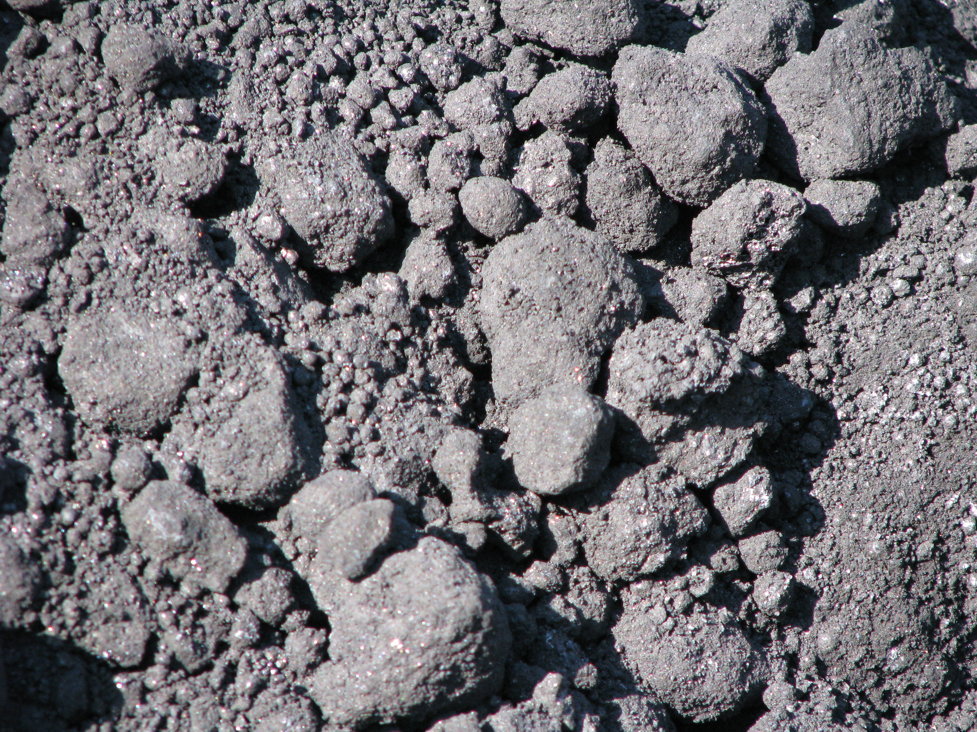 Petroleum coke, close-up.